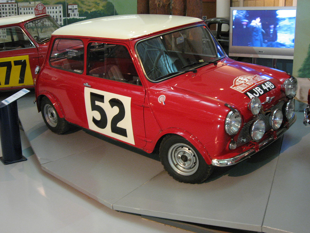 rally mini .at the British motoring heritage museum gaydon .